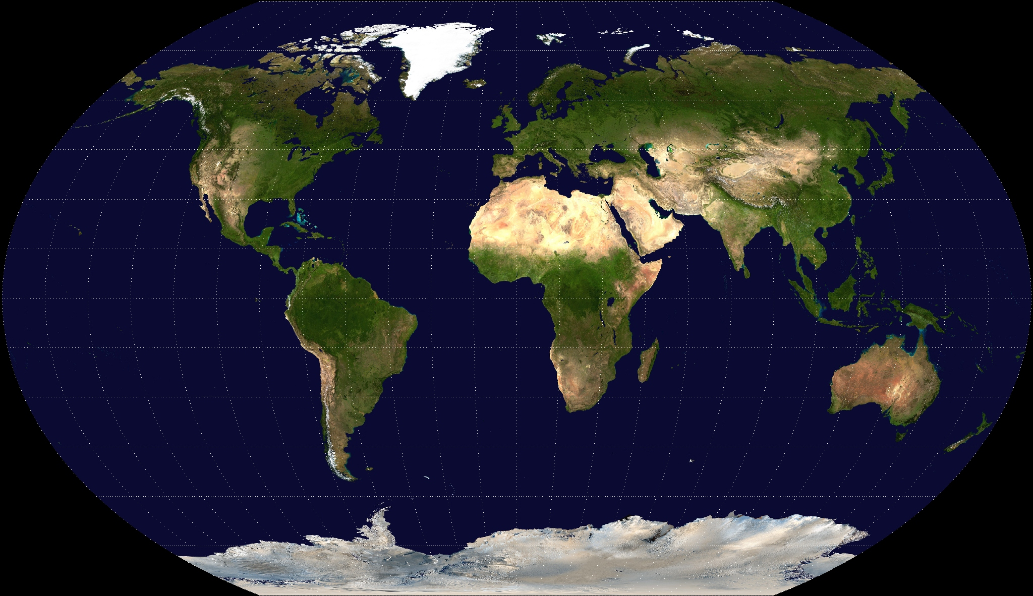 Kavrayskiy VII projection of the Earth. Source image is from NASA's Earth Observatory "Blue Marble" series.